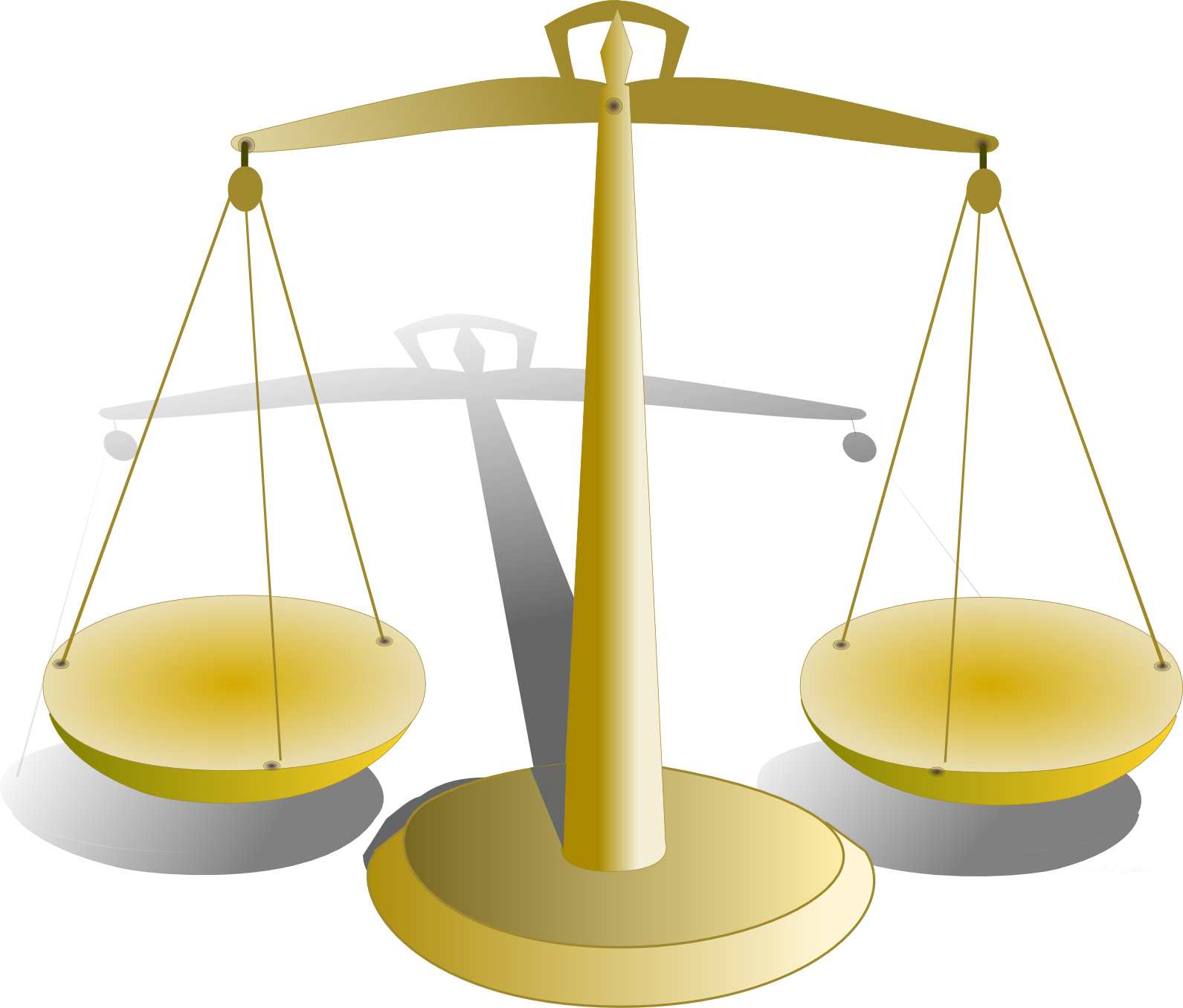 justice balance